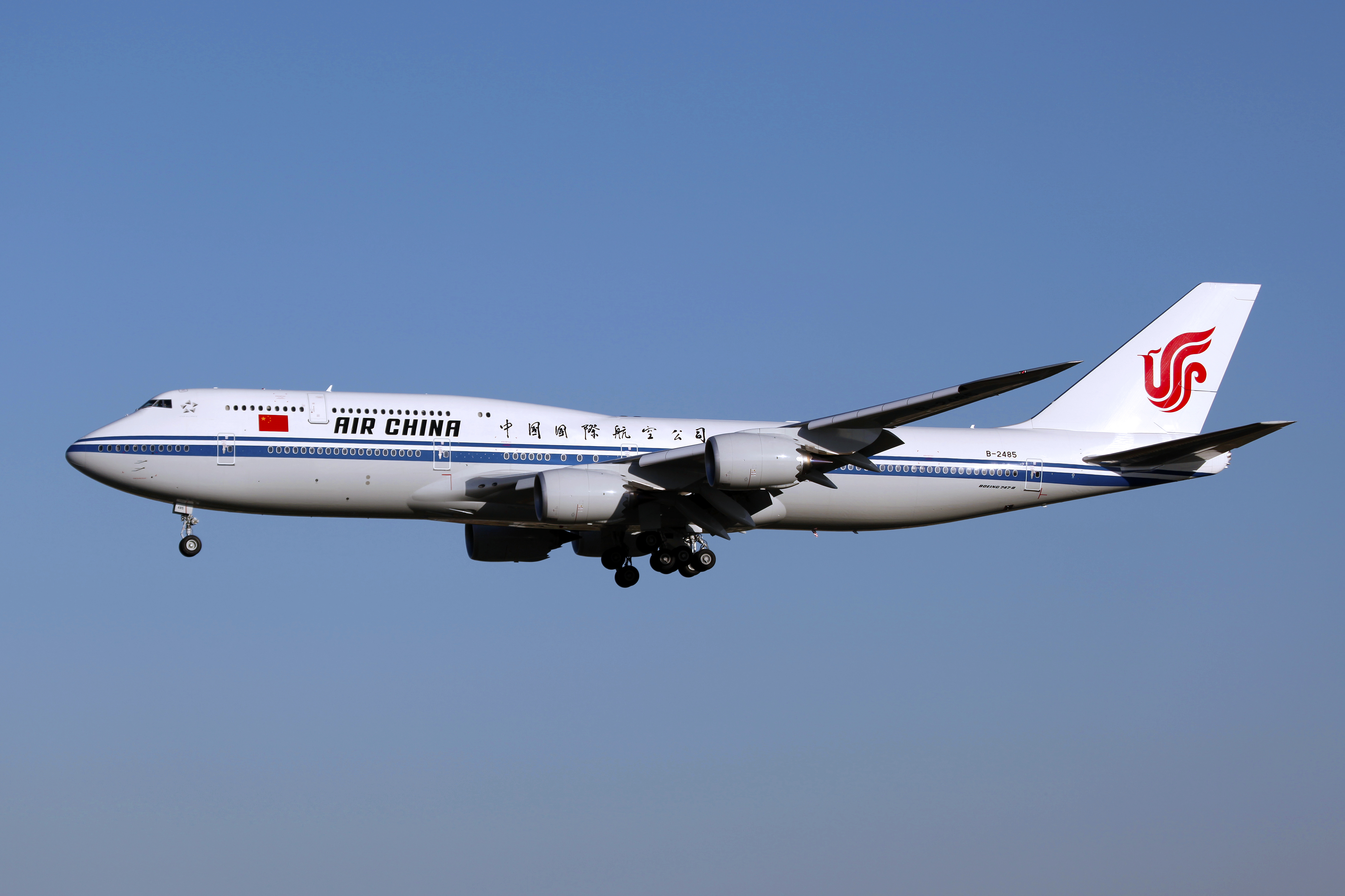 Air China Boeing 747-89L at Beijing Capital International Airport [PEK]